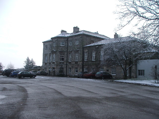 Aston Hall. Originally designed by the famous York architect, John Carr, and built in 1772 for the Lord Holderness, Secretary of State for the North. Now a luxury hotel.